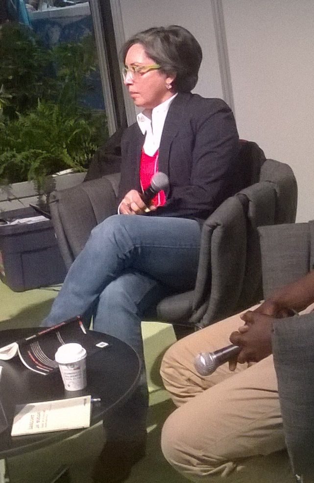 May Telmissany photographed in Montréal , Québec, Canada at the salon du livre de Montréal 2017.